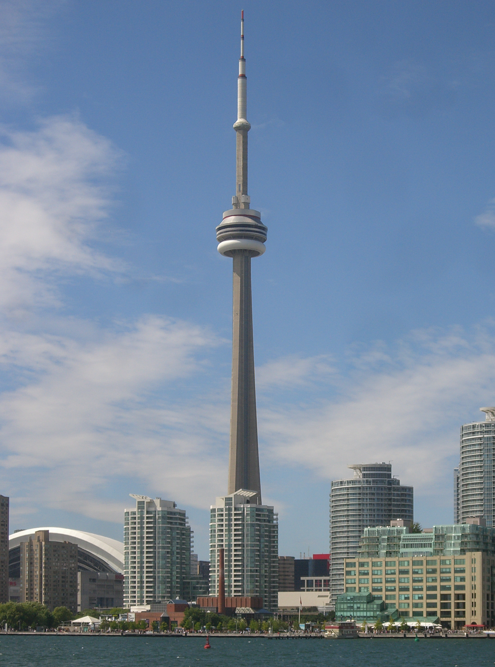 CN Tower, Toronto, Canada